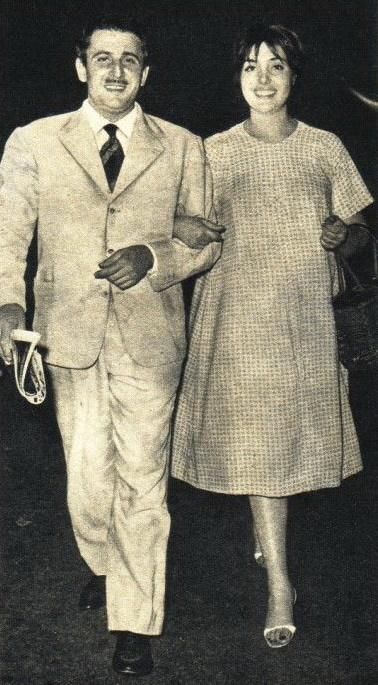 Domenico Modugno and his wife Franca Gandolfi walking in Rome